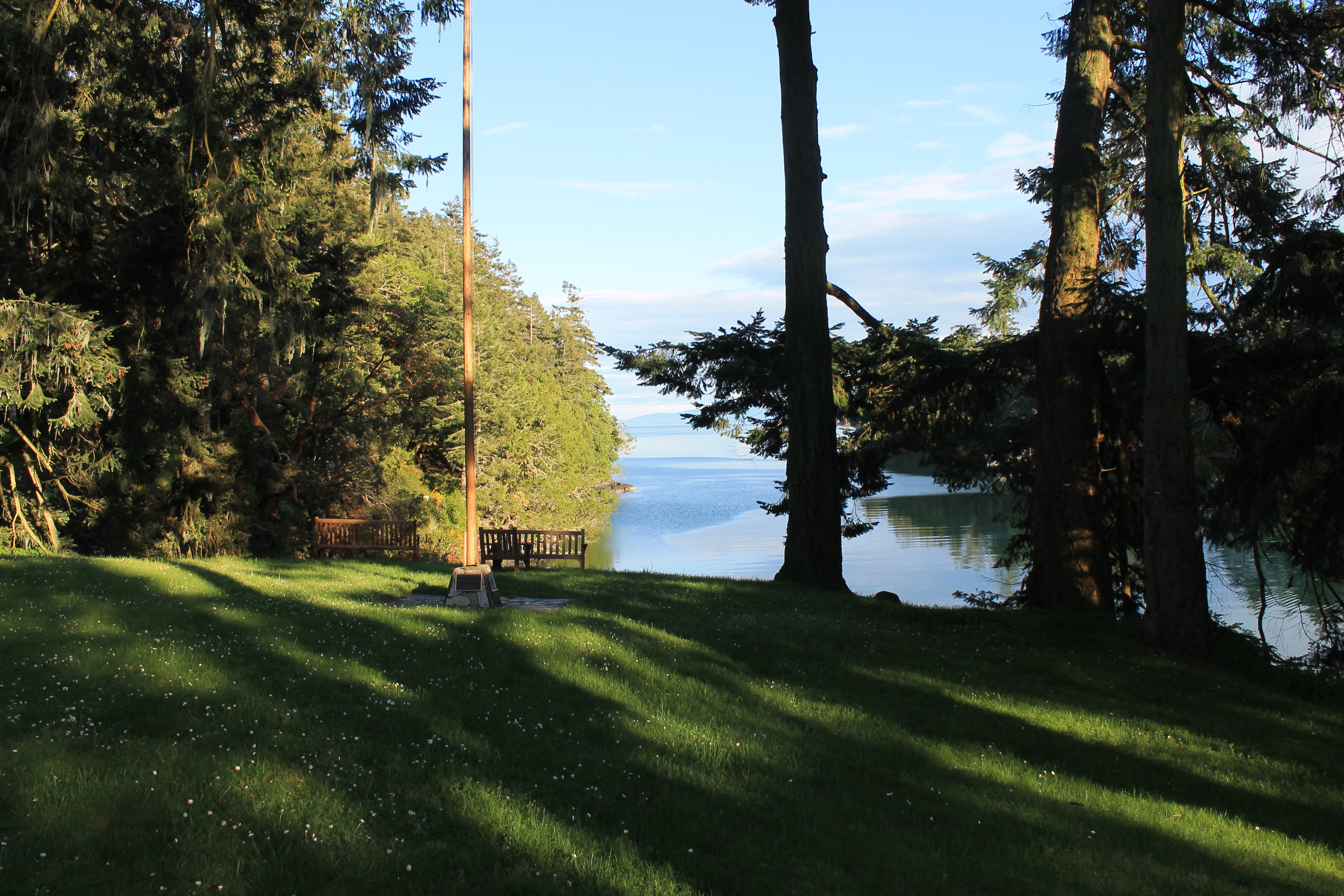 Director's lawn of Pearson College UWC.